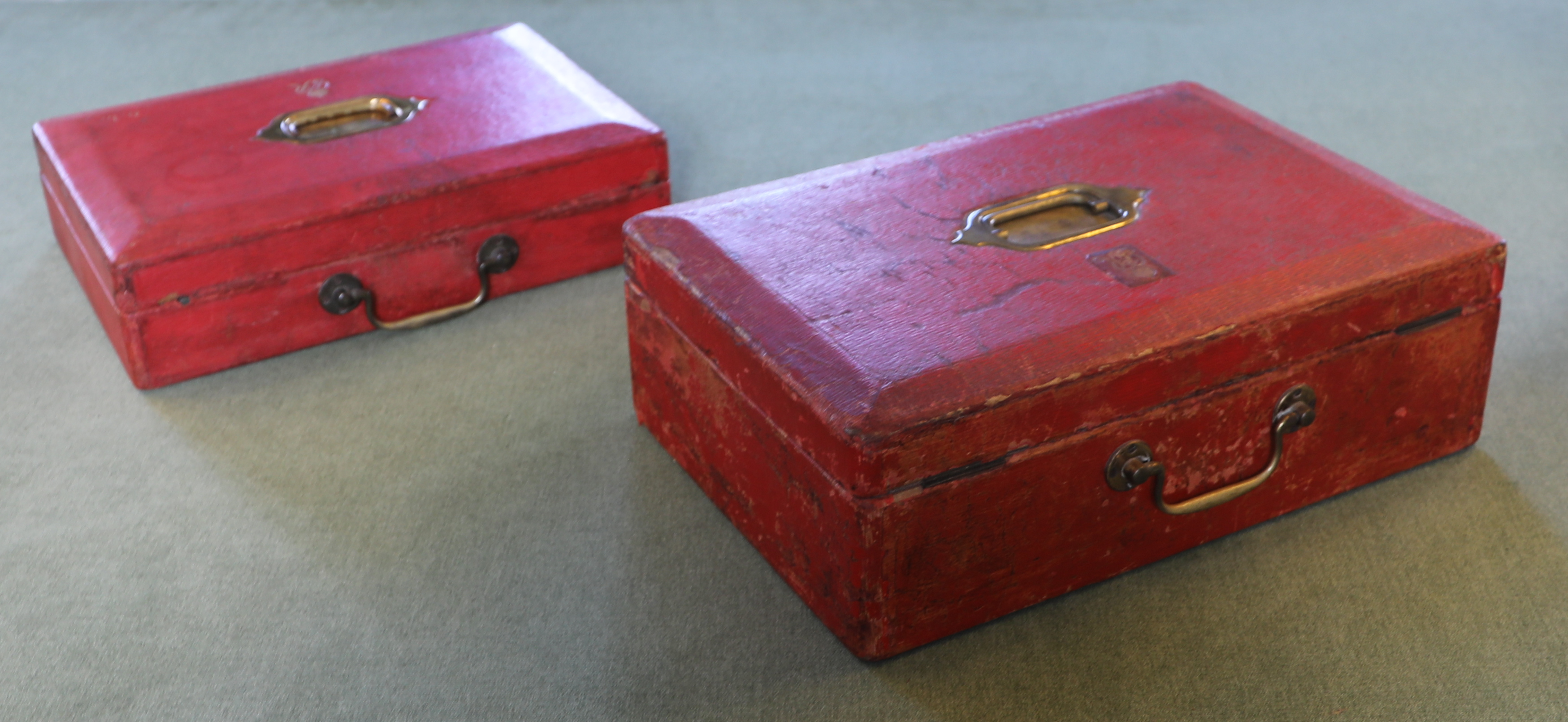 Photo of a pair of red ministerial boxes at leeds castle